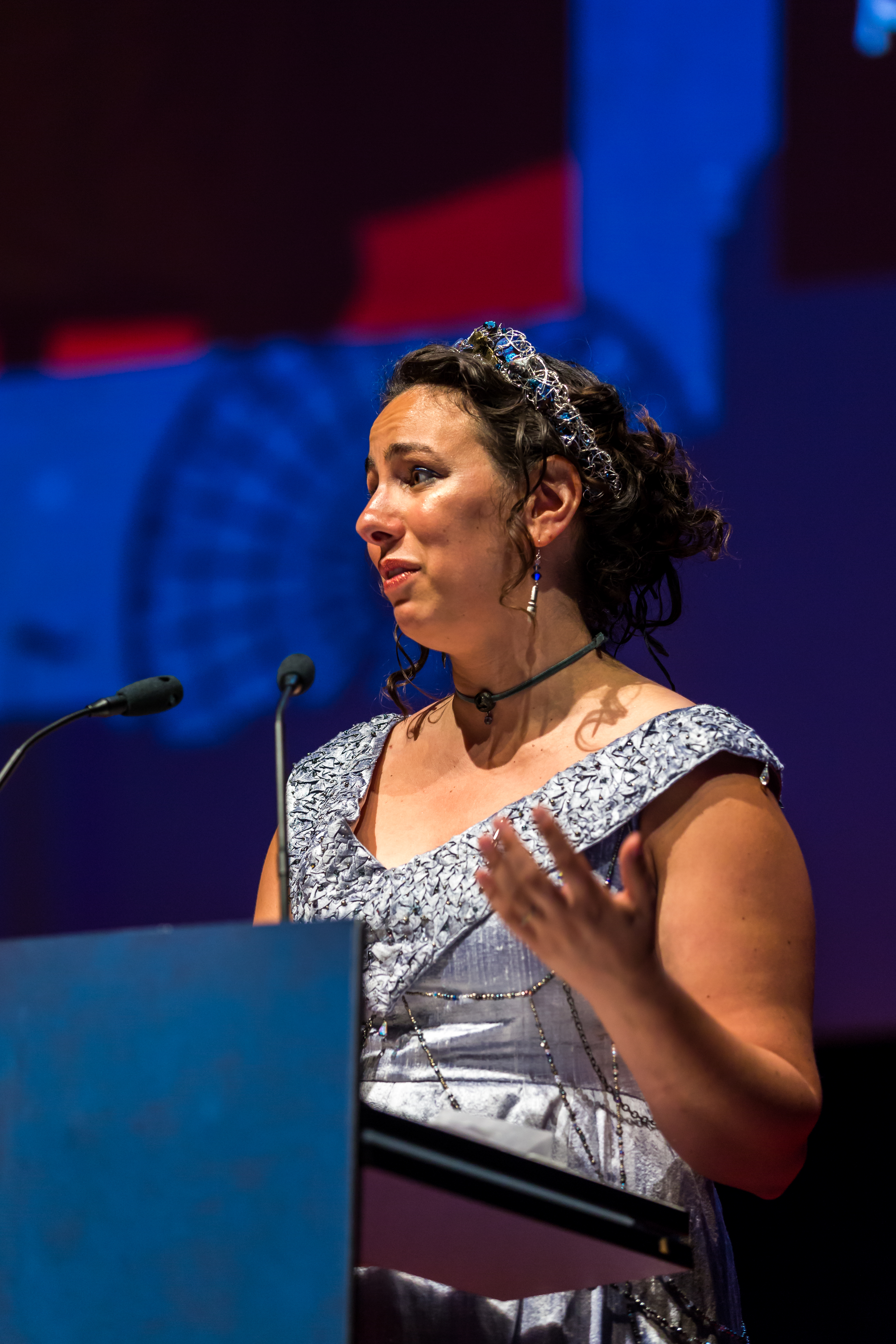 Amal El-Mohtar, winner of the Best Short Story Hugo, at the Hugo Award Ceremony 2017, Worldcon in Helsinki.